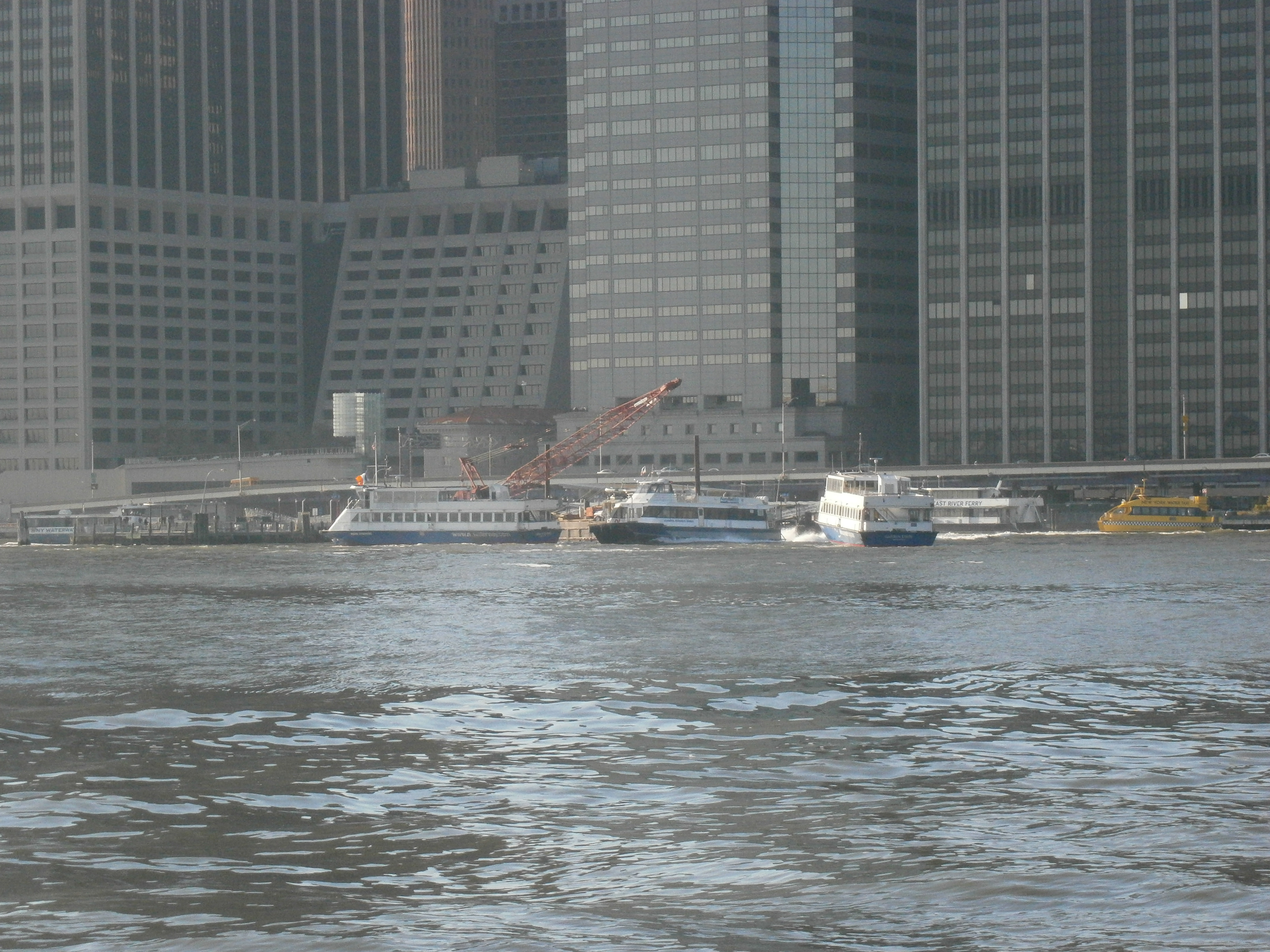 View across East river from Brooklyn Bridge Park to Pier 11-Wall Street ferry terminal in Lower Manhattan